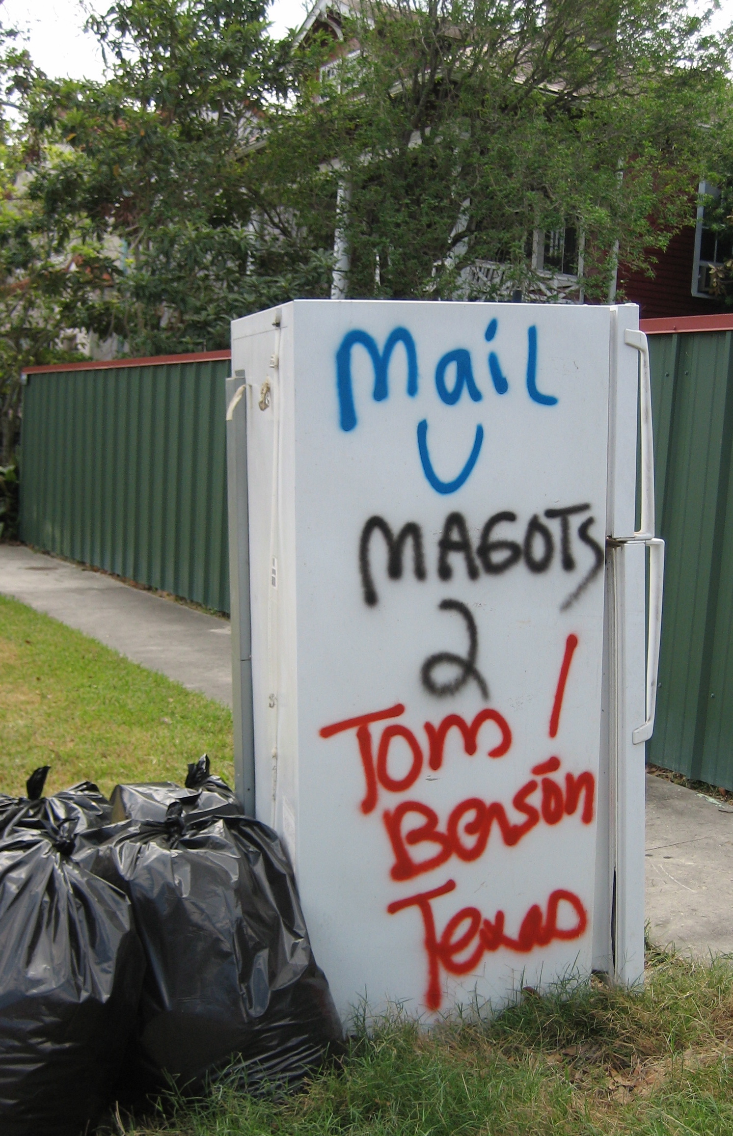 New Orleans after Hurricane Katrina Dead refrigerator, Uptown, with inscription critical of New Orleans Saints football team owner Tom Benson, who is rumored to be trying to move the team to Texas.